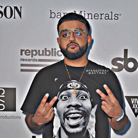 Nav at Coachella